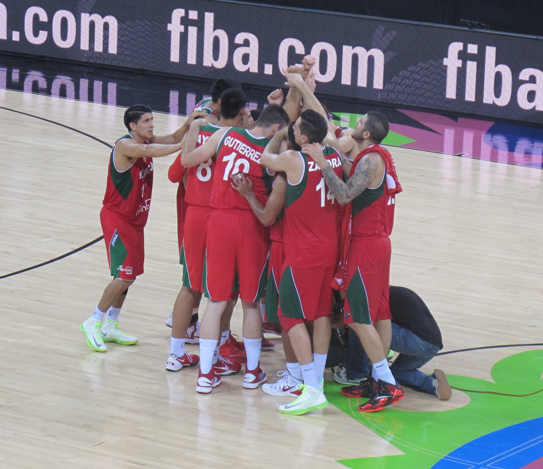 Taken during 2014 Basketball World Cup